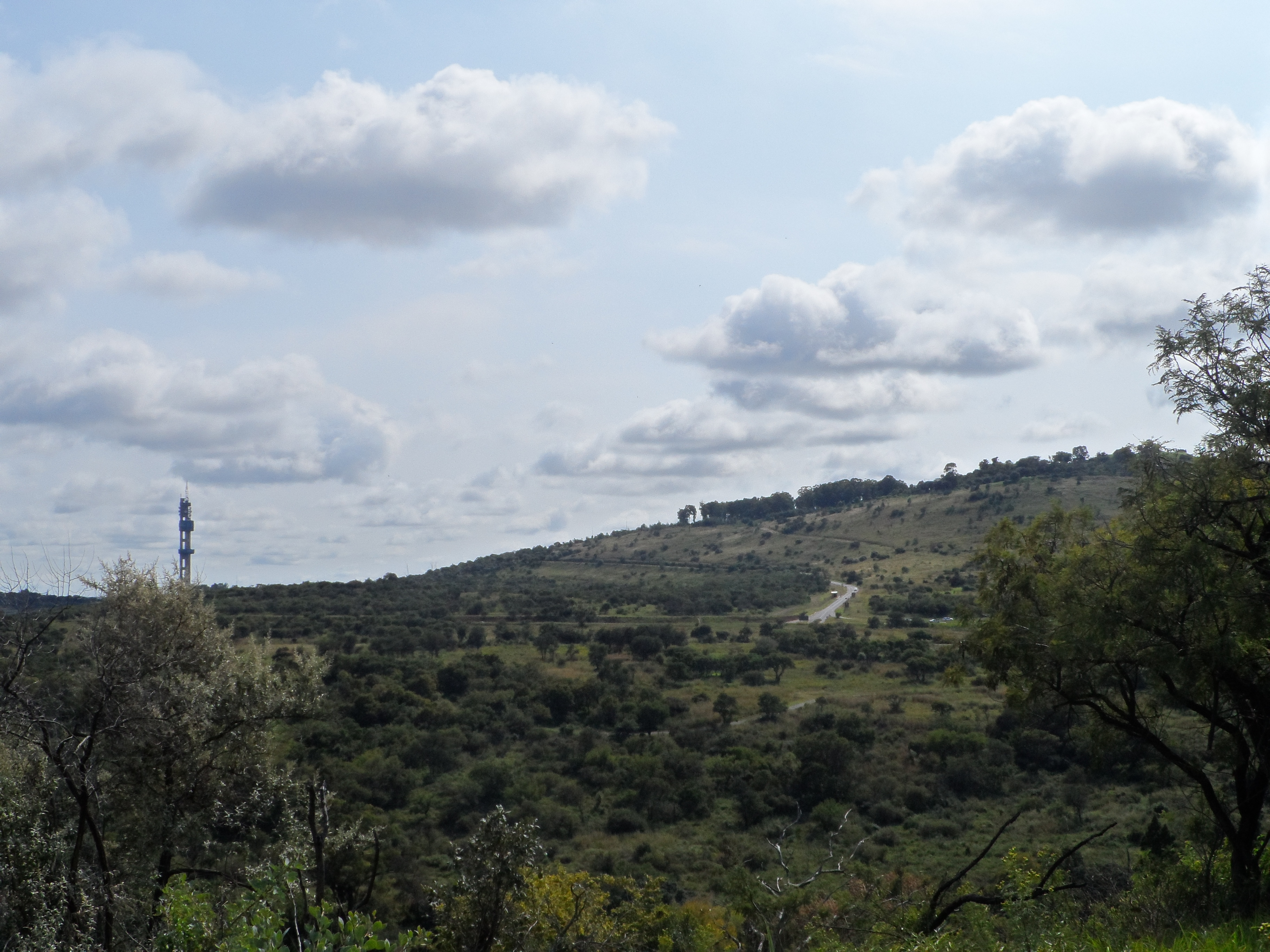 A view eastwards over Groenkloof Nature Reserve near Pretoria, as seen from the yellow trail. The western entrance to the adjacent Klapperkop Nature Reserve is visible at center.